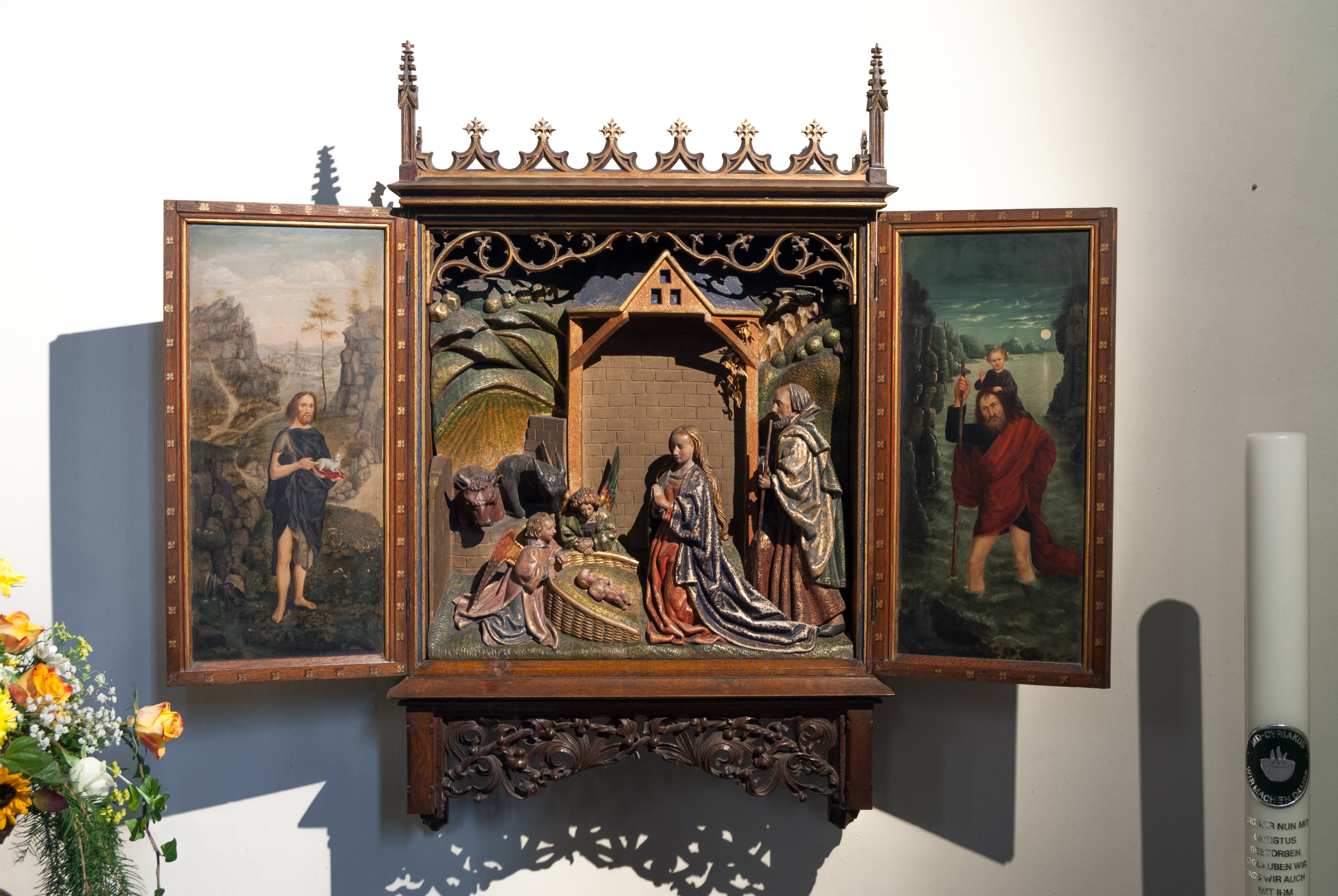 Krefeld (North Rhine-Westphalia, Germany) – district Hüls – Catholic Saint Cyriacus Church – small winged altar (oldest paintings around 1448) in the left aisle This image shows a heritage building in Germany, located in the North Rhine-Westphalian city Krefeld (no. 121). This photograph was taken with a Nikon D3000